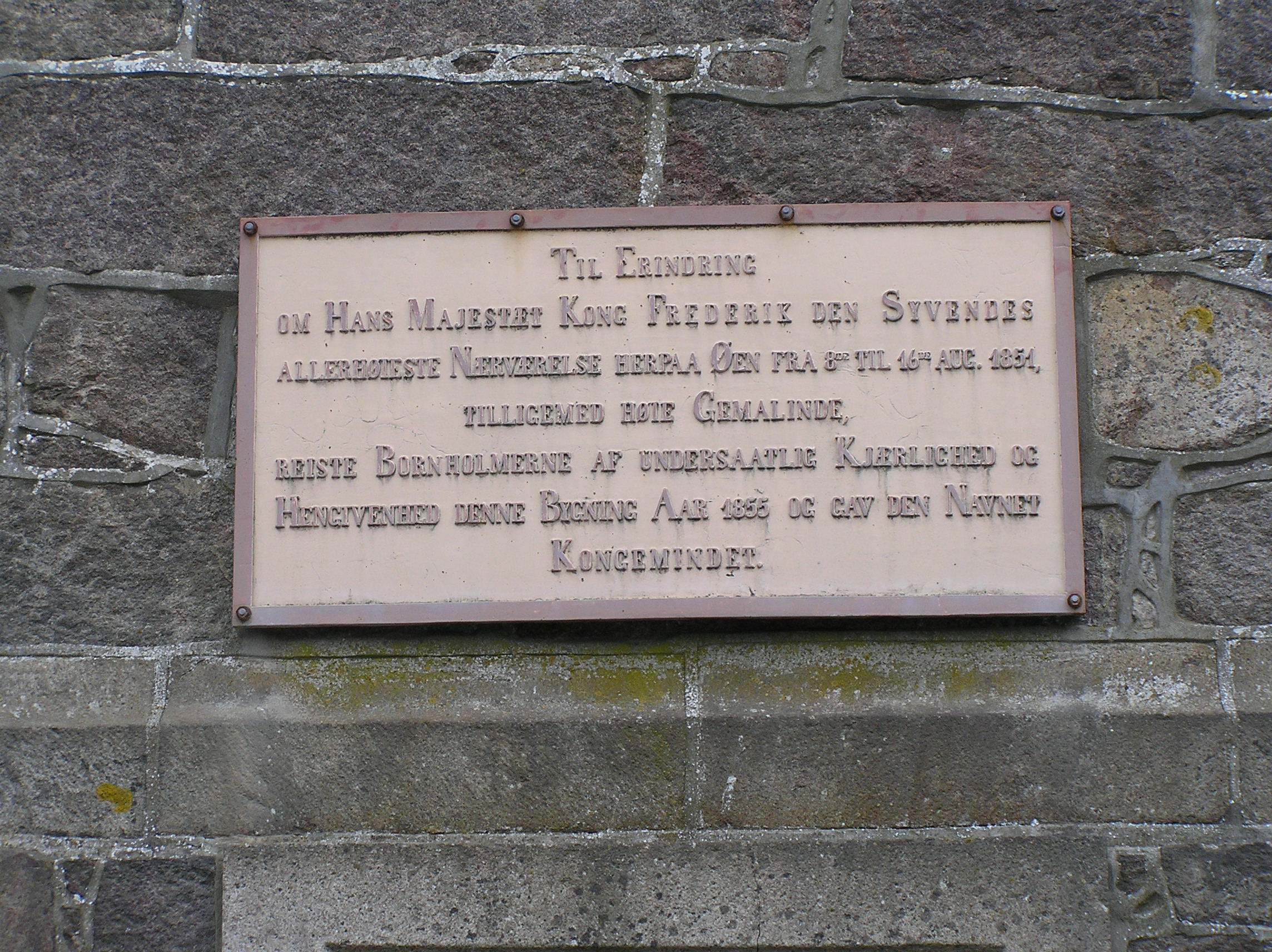 The memorial tablet at the King's Memory tower at Rytterknægten, Bornholm